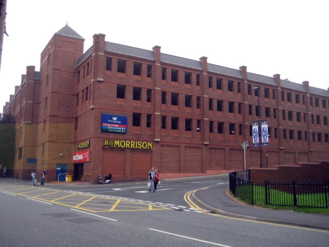 The Ridings car park The Ridings shopping centre has extensive car parking. Shown, the Almshouse Lane access road. A Wm. Morrison supermarket occupies the basement level. The banners hanging from the lamp posts all over the city centre, are promoting the Hepworth gallery, currently being built.